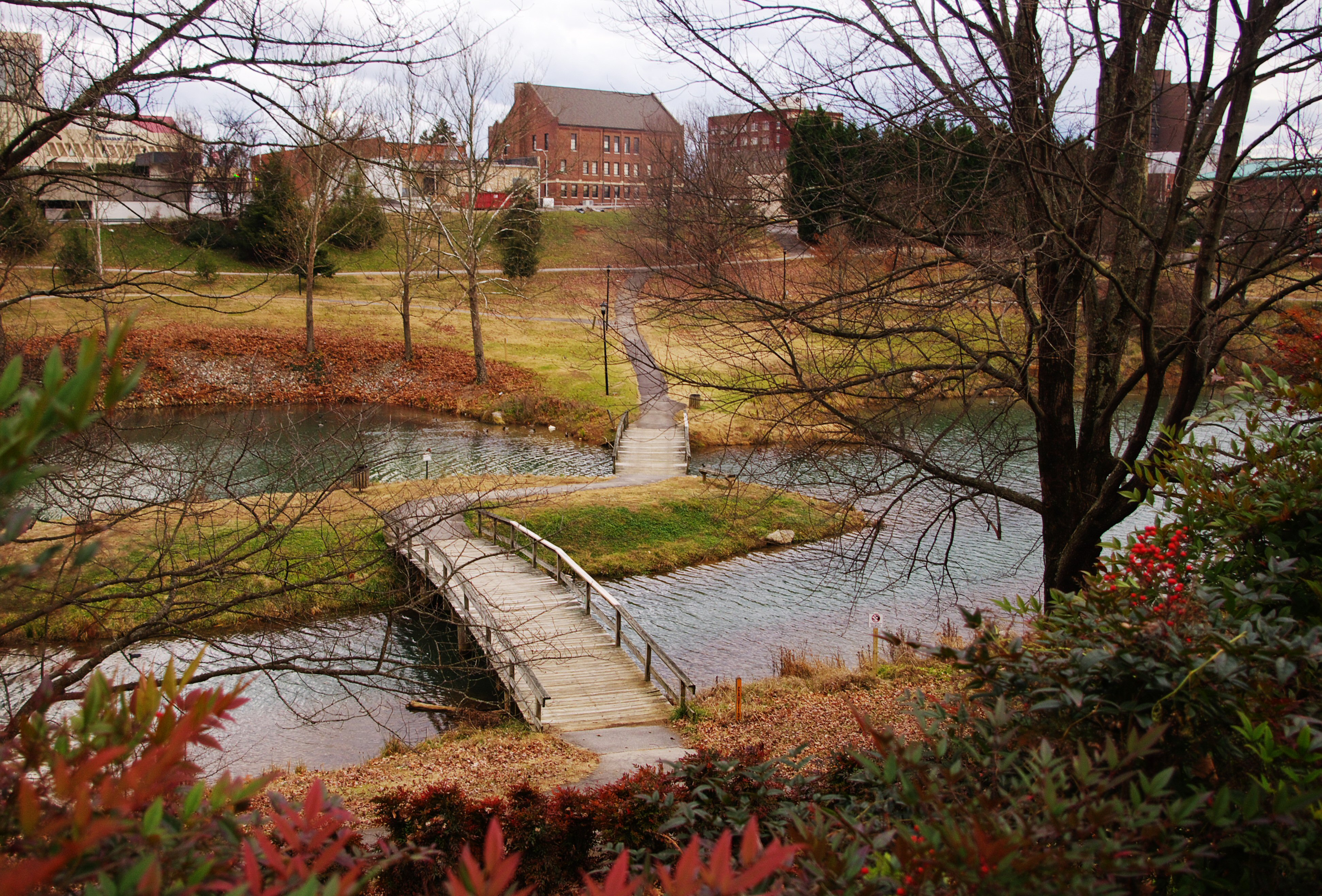 Bridges over Pistol Creek at Greenbelt Park in Maryville, Tennessee, United States.